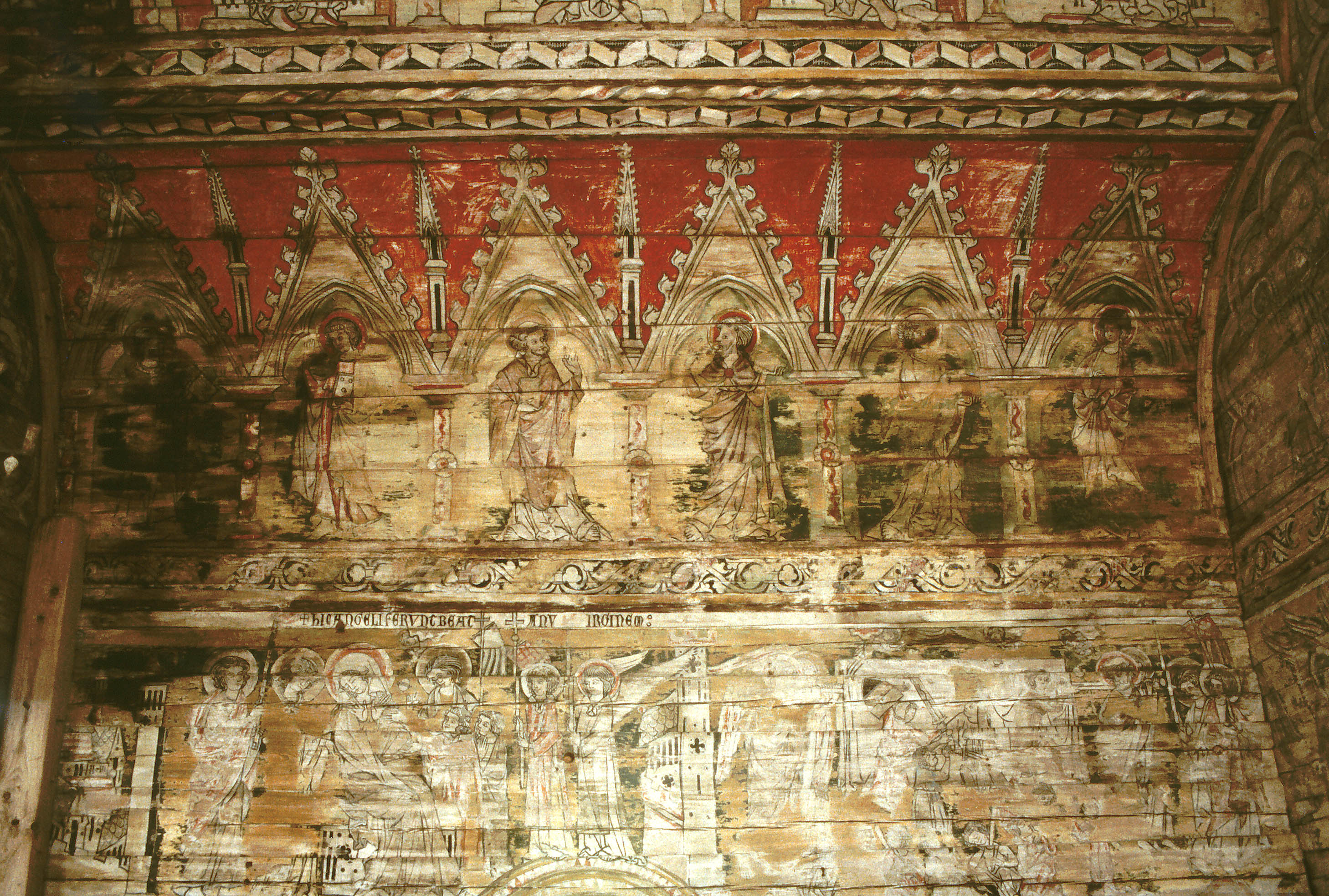 Painting from 1323 in the church of South Råda, Sweden, now destroyed by fire.